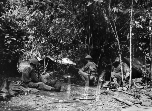 1943-01-22. PAPUA. SANANANDA AREA. 2/7TH CAVALRY REGIMENT HEADQUARTERS 40 YARDS FROM JAPANESE POSITIONS IN THE SANANANDA AREA.